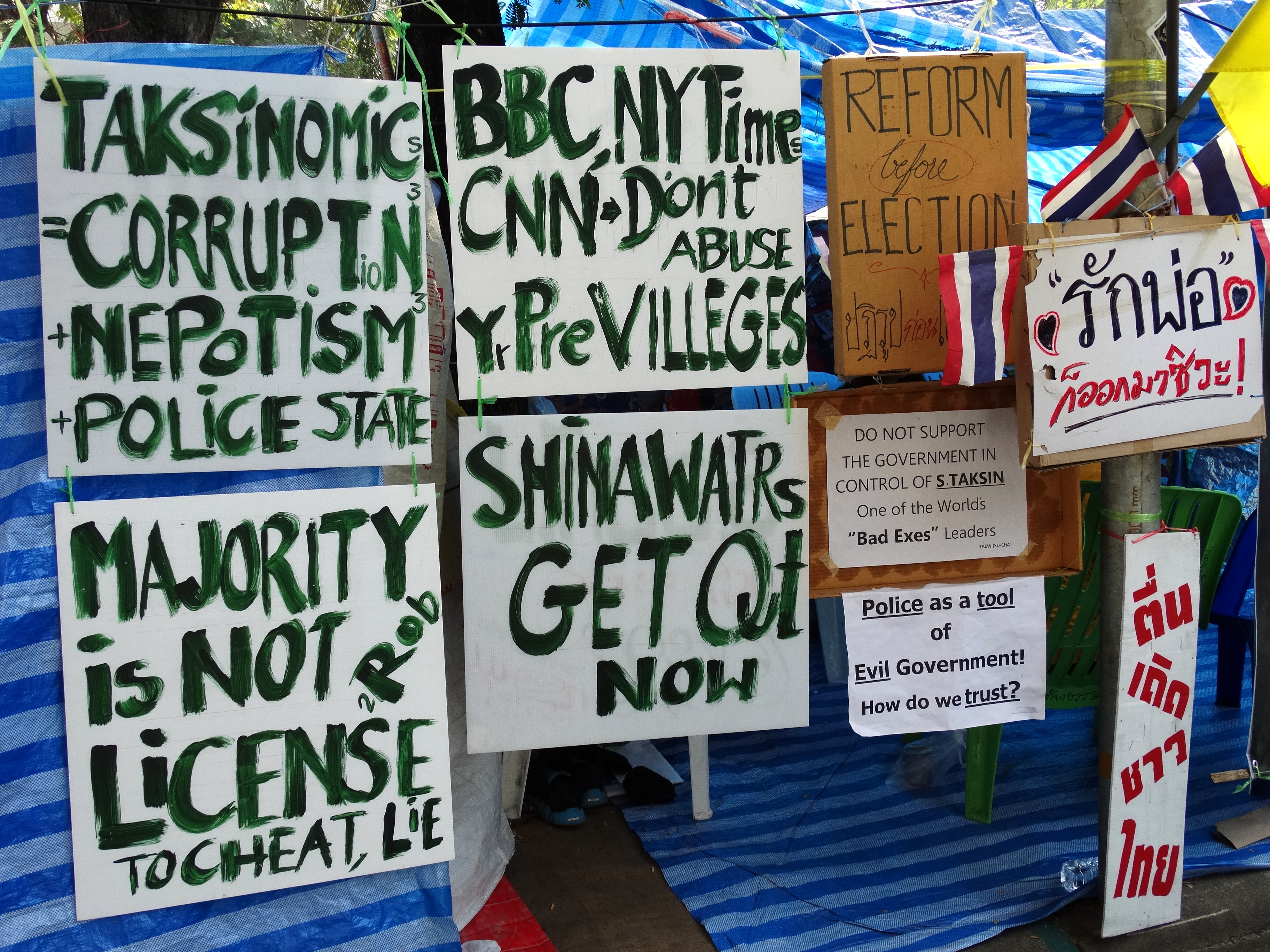 Signs for Yellow Shirt Protests - Banglamphu District - Bangkok - Thailand - 03